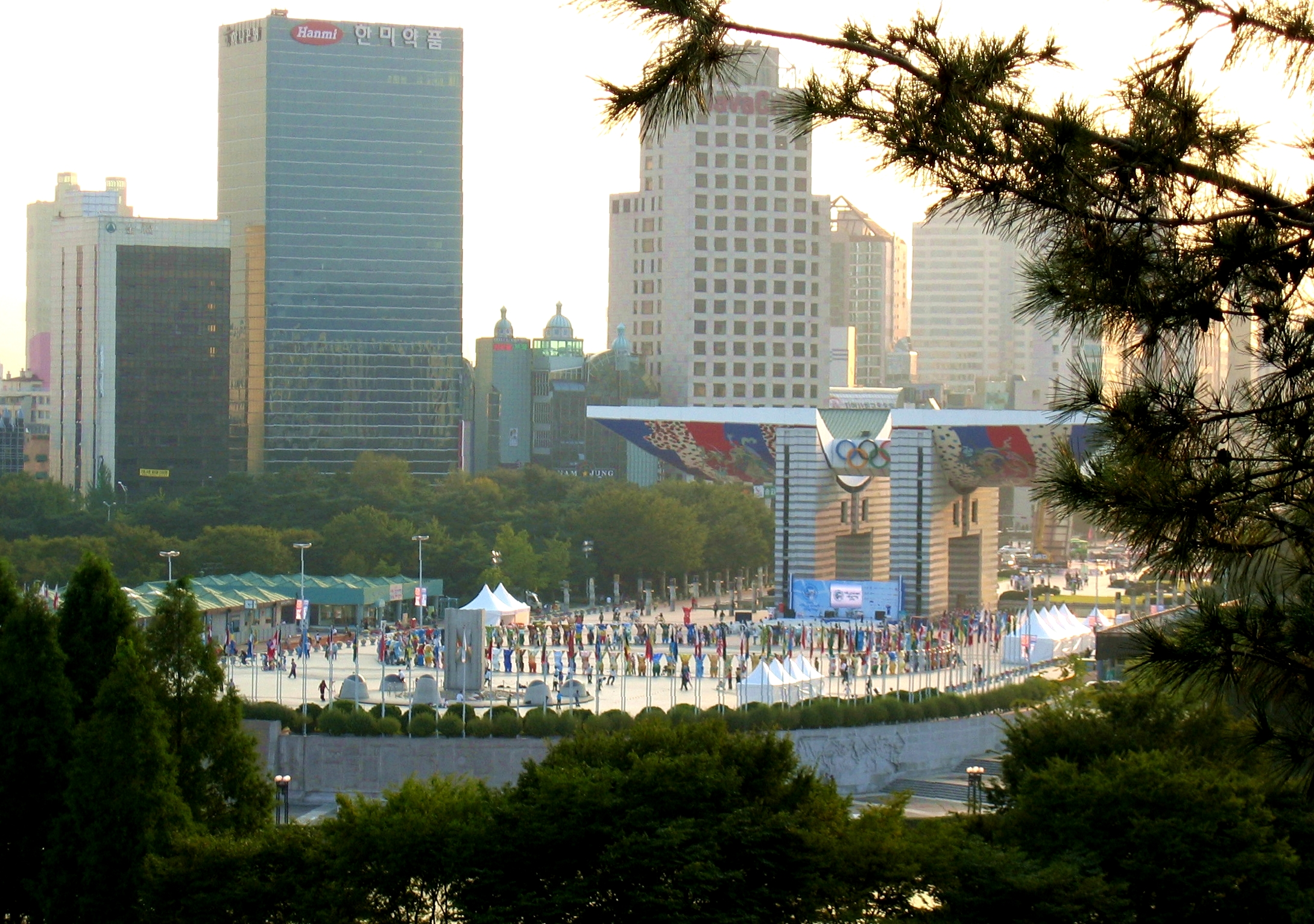 United Buddy Bears in Seoul (South-Korea)